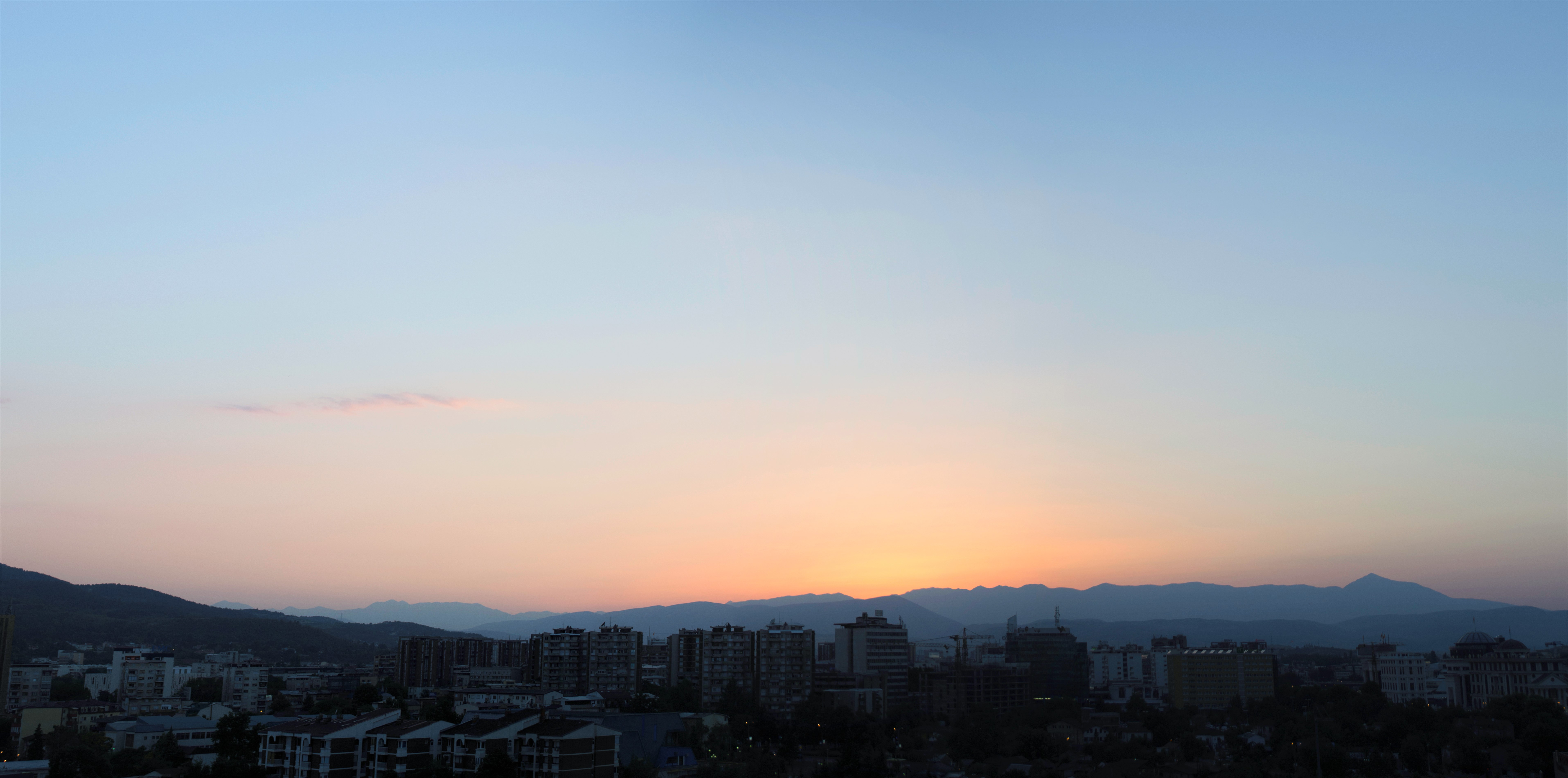 Twilight in Skopje, Republic of MacedoniaShqip: Muzg në Shkup, Republika e Maqedonisë